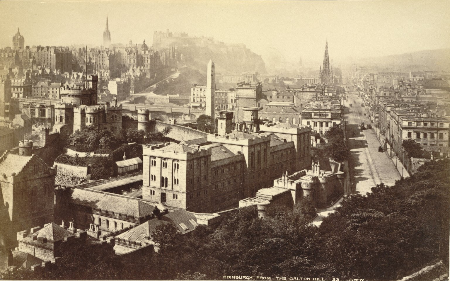 Collection: A. D. White Architectural Photographs, Cornell University Library Accession Number: 15/5/3090.01209a Title: Edinburgh from Calton Hill Photographer: George Washington Wilson (Scottish, 1823-1893) Photograph date: ca. 1865-ca. 1895 Materials: albumen print Image: 4 3/4 x 7 5/8 in.; 12.065 x 19.3675 cm Provenance: Transfer from the College of Architecture, Art and Planning Persistent URI: There are no known U.S. copyright restrictions on this image. The digital file is owned by the Cornell University Library which is making it freely available with the request that, when possible, the Library be credited as its source. We had some help with the geocoding from Web Services by Yahoo!